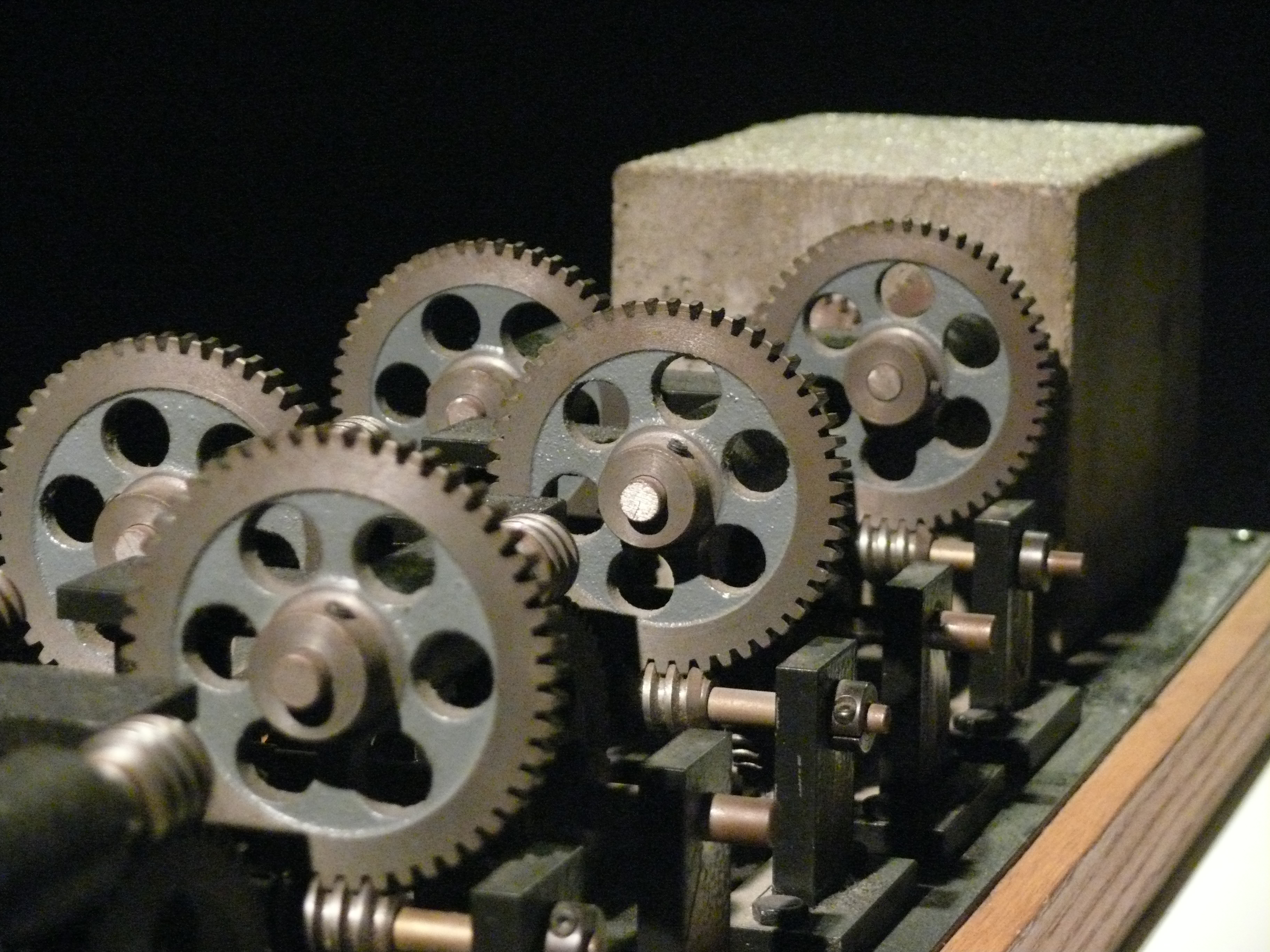 "Machine with Concrete" by Arthur Ganson in Art Electronica Museum of Future